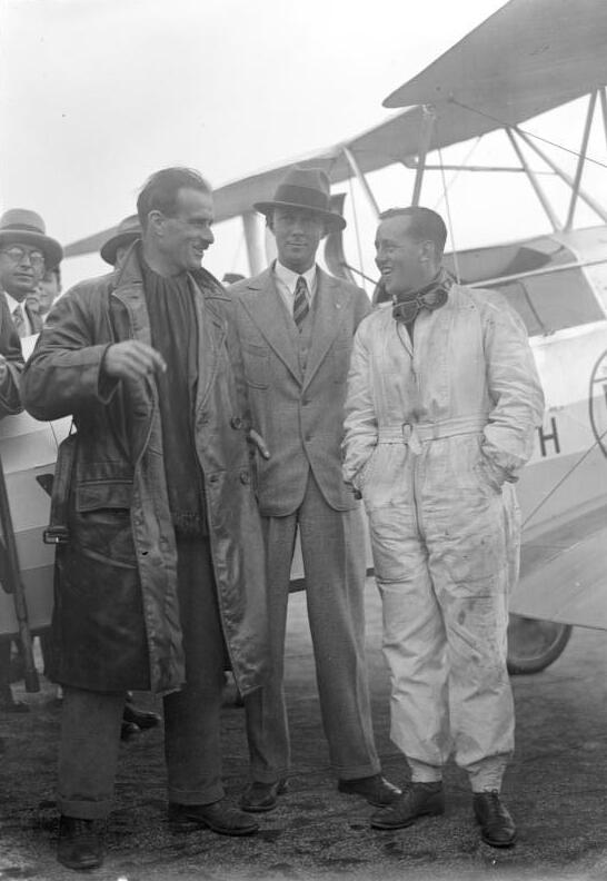 British pilots Alan Butler (left) and Hubert Broad (right) during the Challenge 1930 contest (probably the plane is Butler's DH.60G Gipsy Moth G-AAXG).